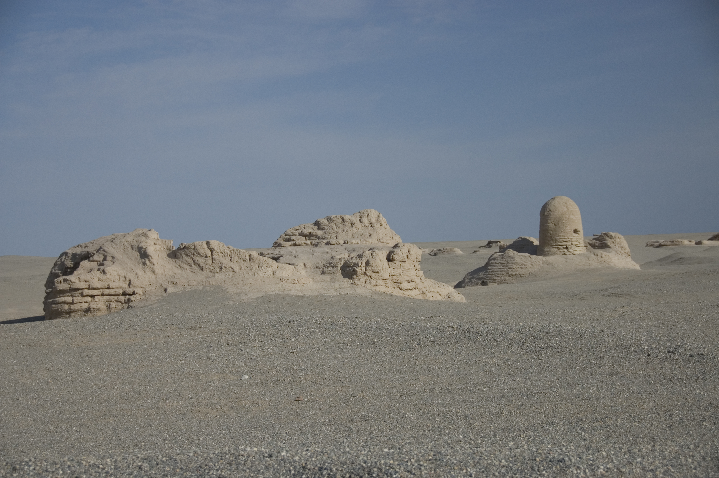 M.IV. and M.III. at Miran from the west, November 2008.